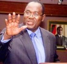 Gideon Gono after presenting a monetary policy statement to the Parliament of Zimbabwe, 2008.